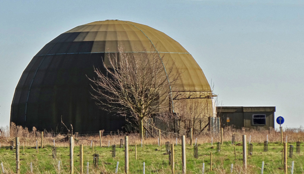 A Royal Air Force station located west of the village of West Raynham in Norfolk. It opened in the 1930s and closed in 1994. During the Second World War, RAF Bomber Command operations from RAF West Raynham claimed 86 aircraft. The site was sold by the Ministry of Defence (MoD) in 2006. Tamarix Investments, which now owns the site, plans to renovate the 170 houses at RAF West Raynham and build more homes and a hotel.